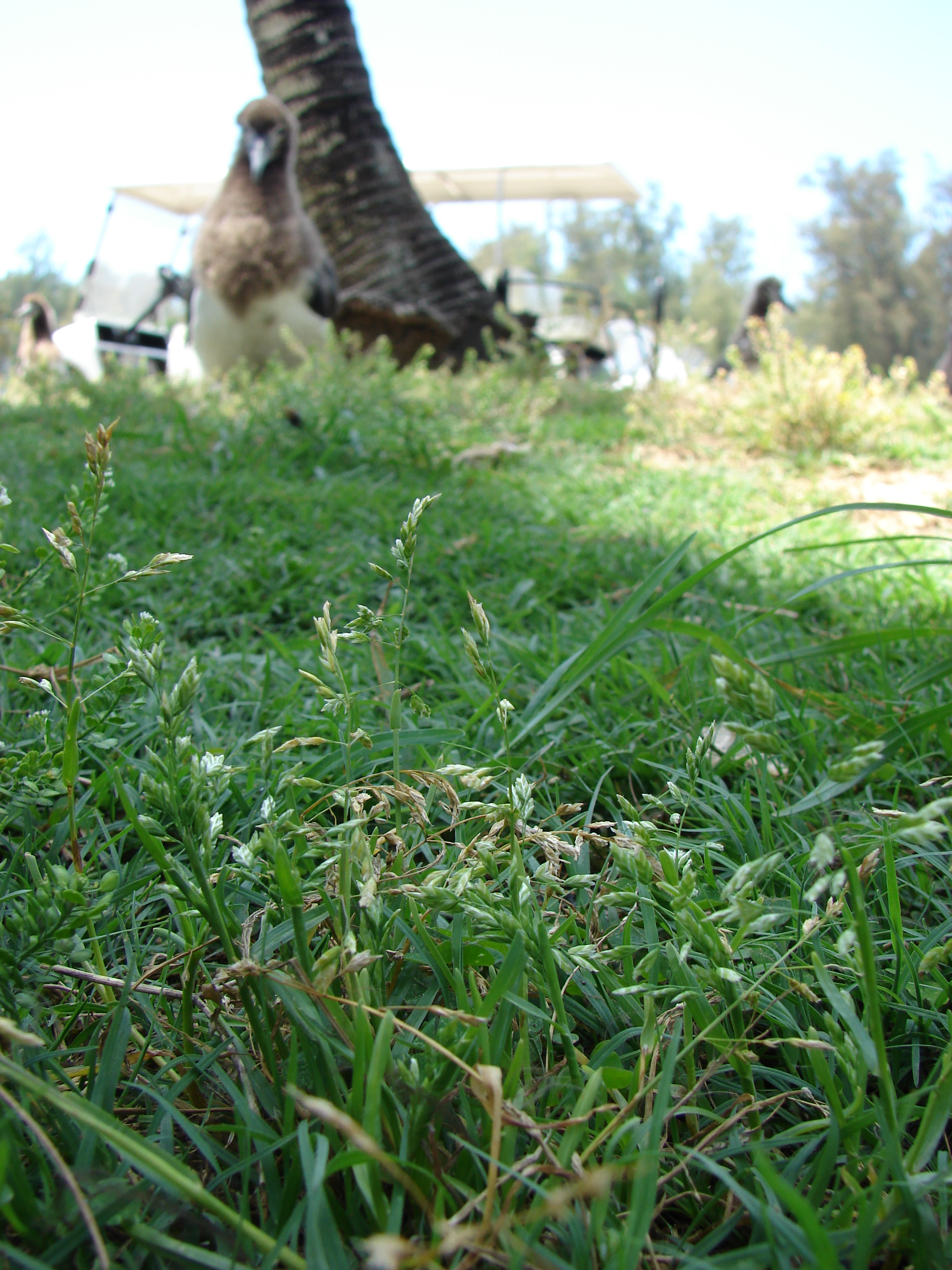 Poa annua (habit with Laysan albatross chick). Location: Midway Atoll, Charlie barracks Sand Island